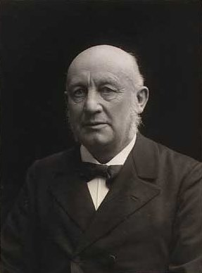 Georg Nicolai Kringelbach (1839-1912), Danish archivist and historian